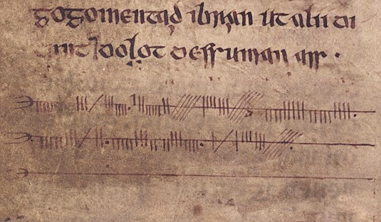 An excerpt from folio 40v of Bodleian Library MS Rawlinson B 503 (the Annals of Inisfallen). Ogham inscription. Translation of the Latin Ogham text: "Money is honoured, without money nobody is loved"